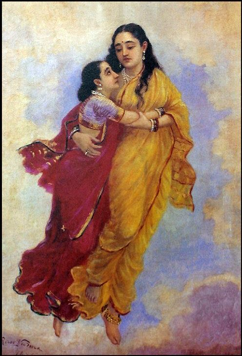 Apsaras Menakataking her daughter Sakunthala while she was pregnant and discarded by King Dushyantha.